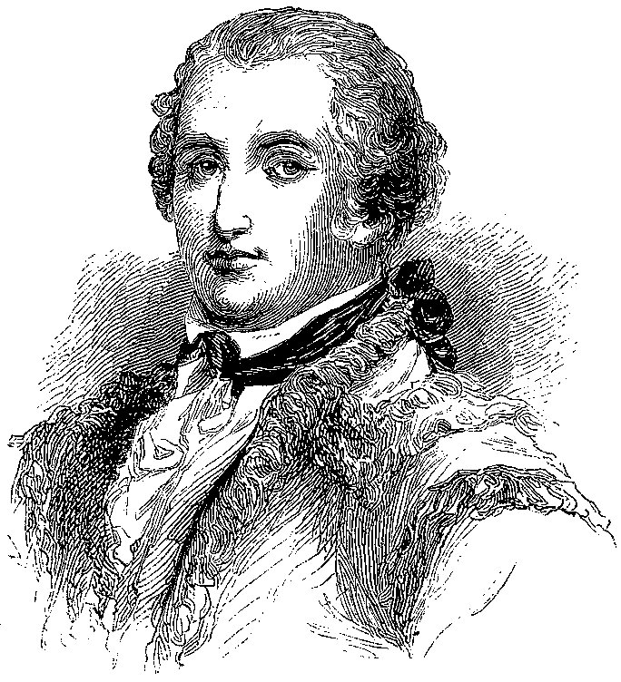 General Daniel Morgan, illustration of poem "The Battle of the Cowpens: January 18, 1781" by Thomas Dunn English, in Harper's Monthly Magazine, January 1861.